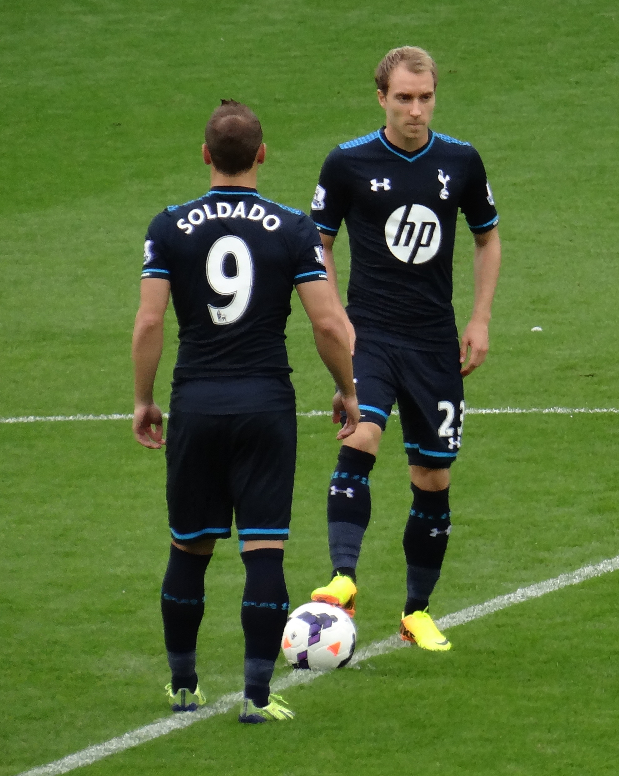 Eriksen and Soldado kick-off against Cardiff City.